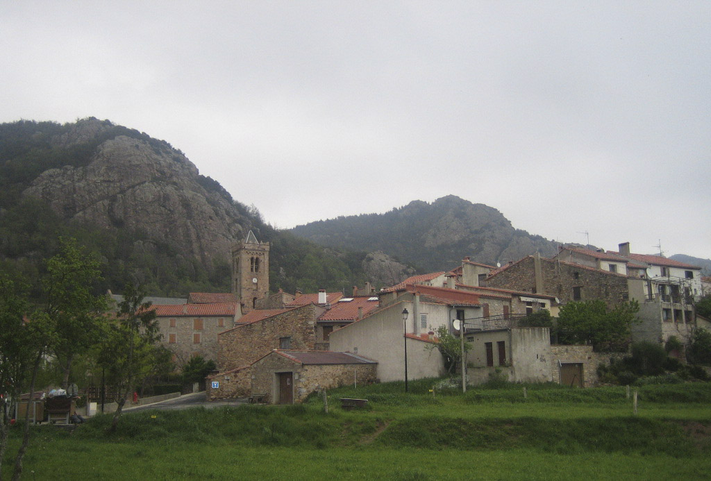 Coustouges-Custoja